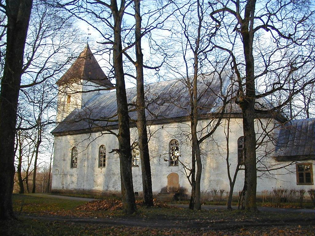 Cīrava Evangelical Lutheran ChurchLatviešu: Cīravas evaņģēliski luteriskā baznīca